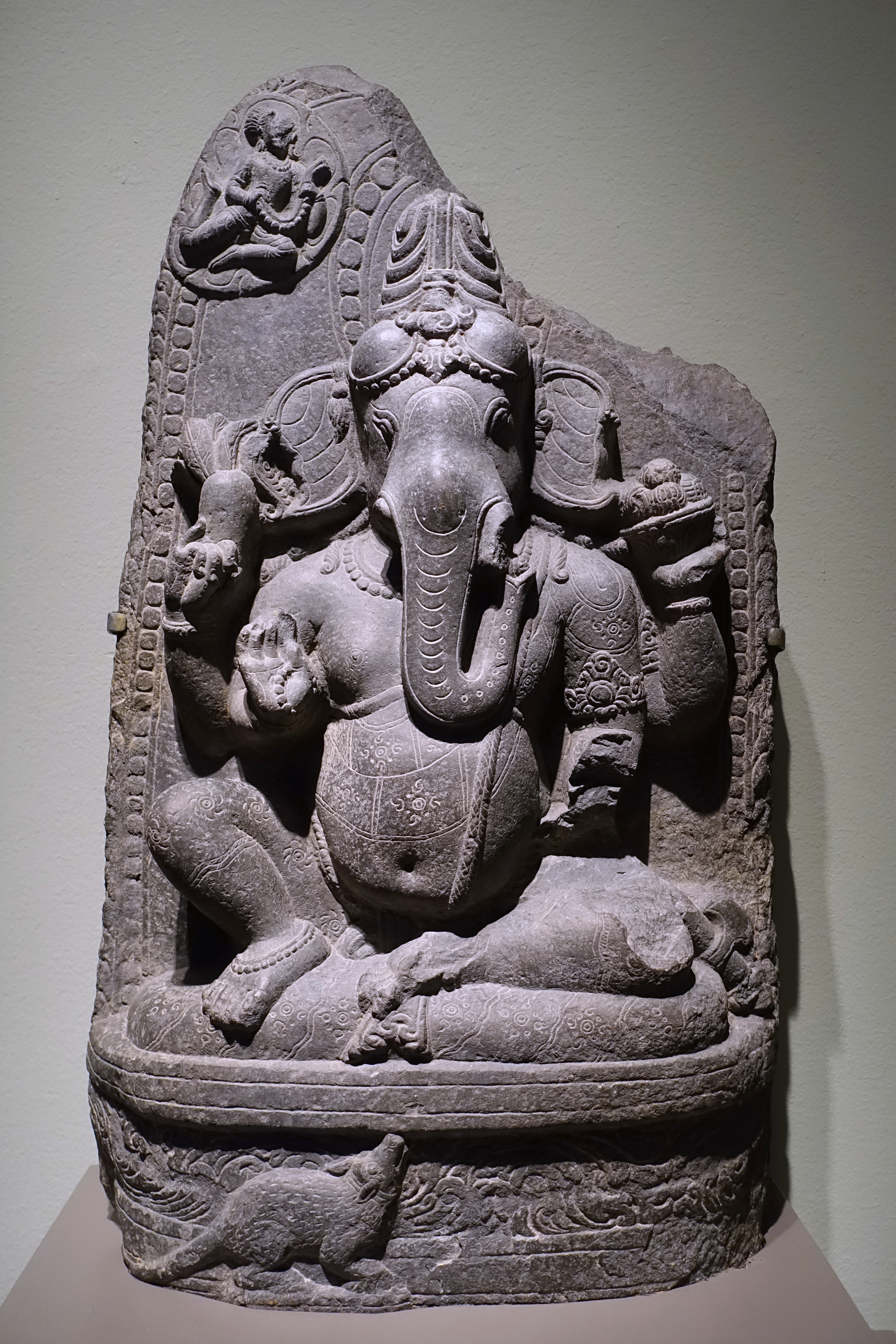 Ganesha, Lord of Obstacles, Northeast India or Bangladesh, Pala dynasty, 1000s AD, gray schist. Exhibit in the Portland Art Museum - Portland, Oregon, USA.